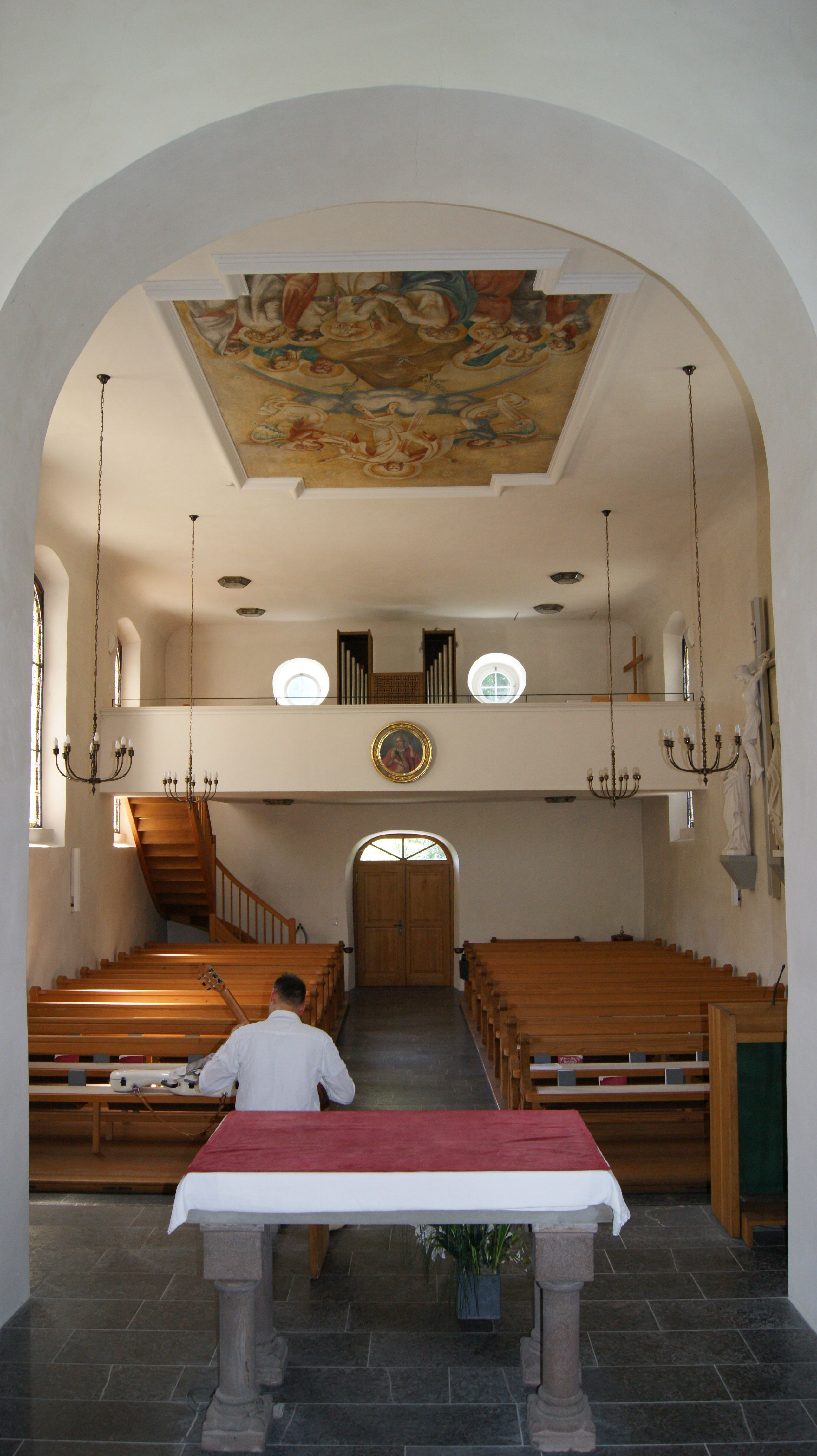 Chapel St. Rochus in Hohenems, Vorarlberg, Austria. View from the choir to the gallery.